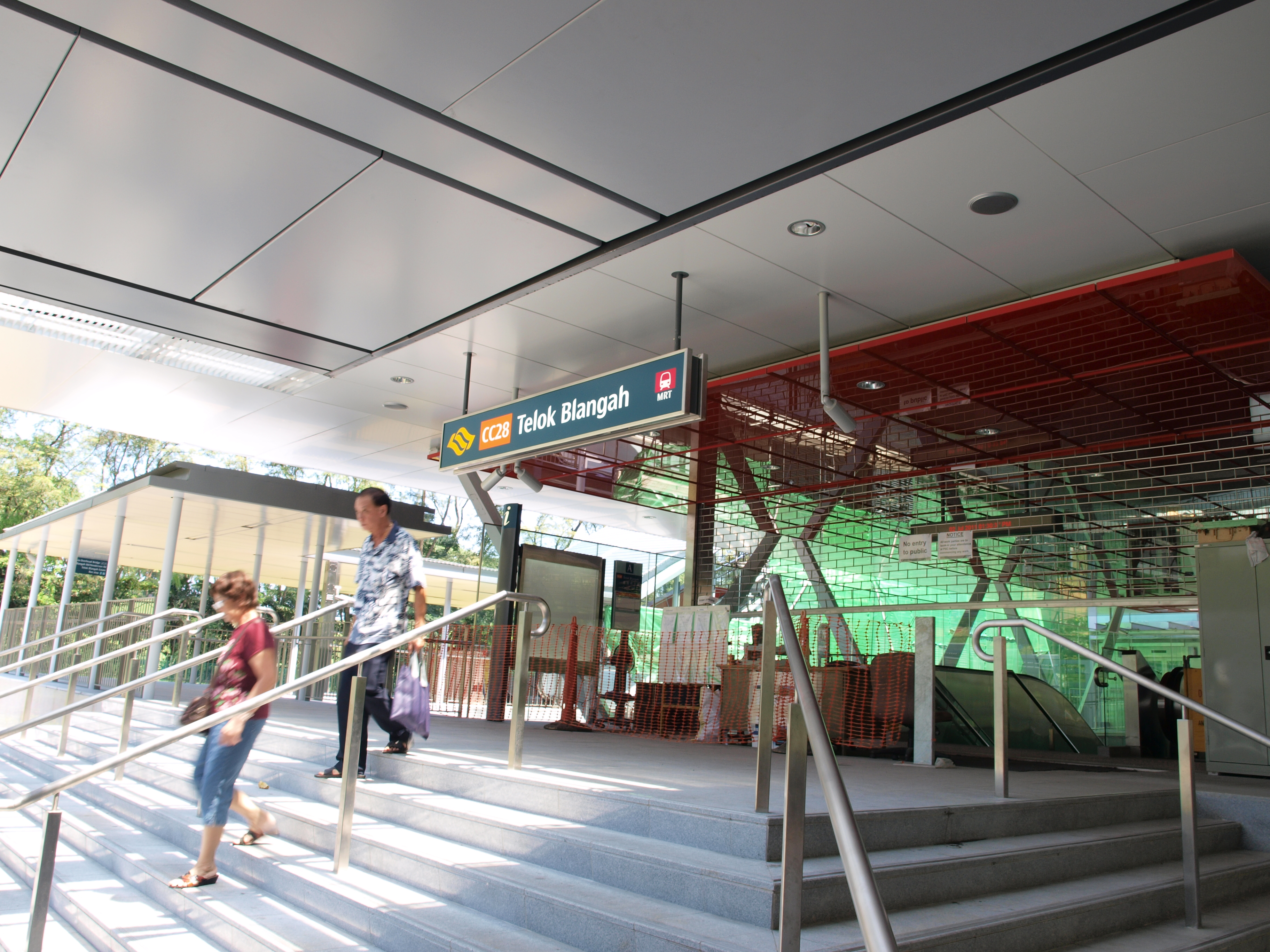 station exit